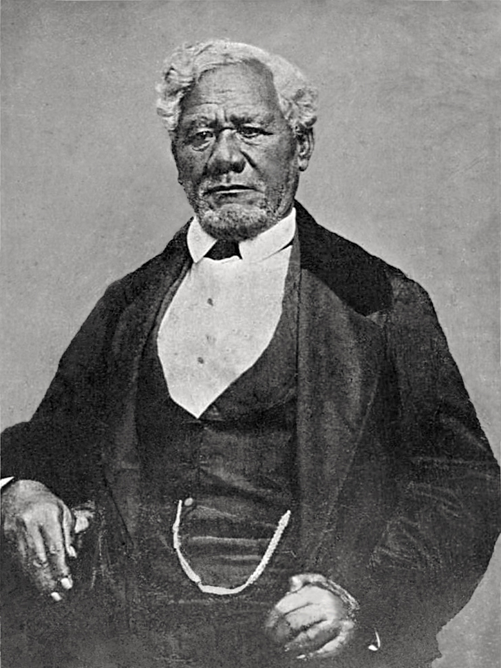 Mataio Kekūanāoʻa (1793–1868).